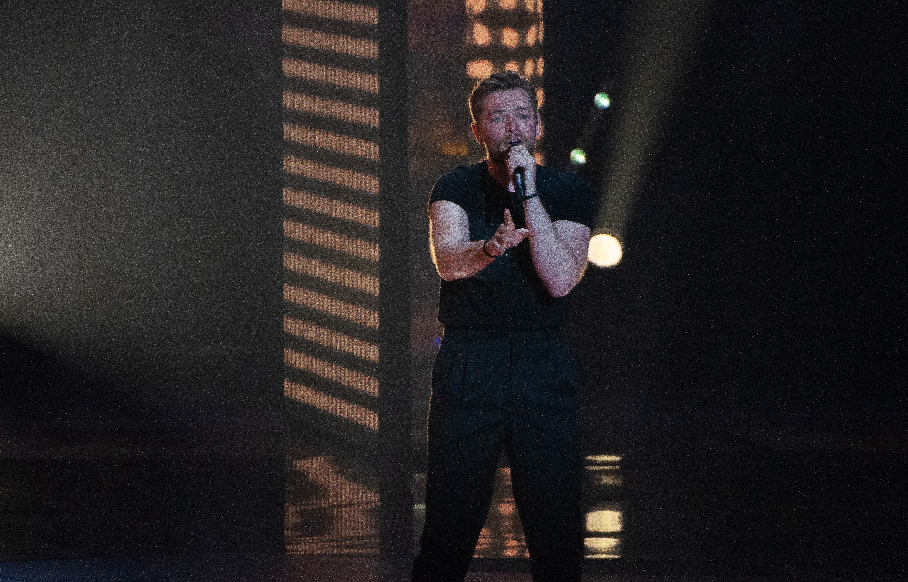 At the 2019 Eurovision Song Contest Semi-final 2 dress rehearsal